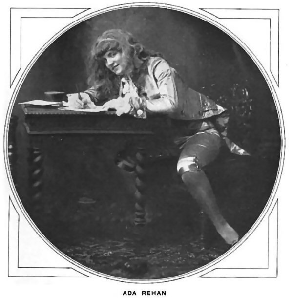 Actress Ada Rehan (no date)